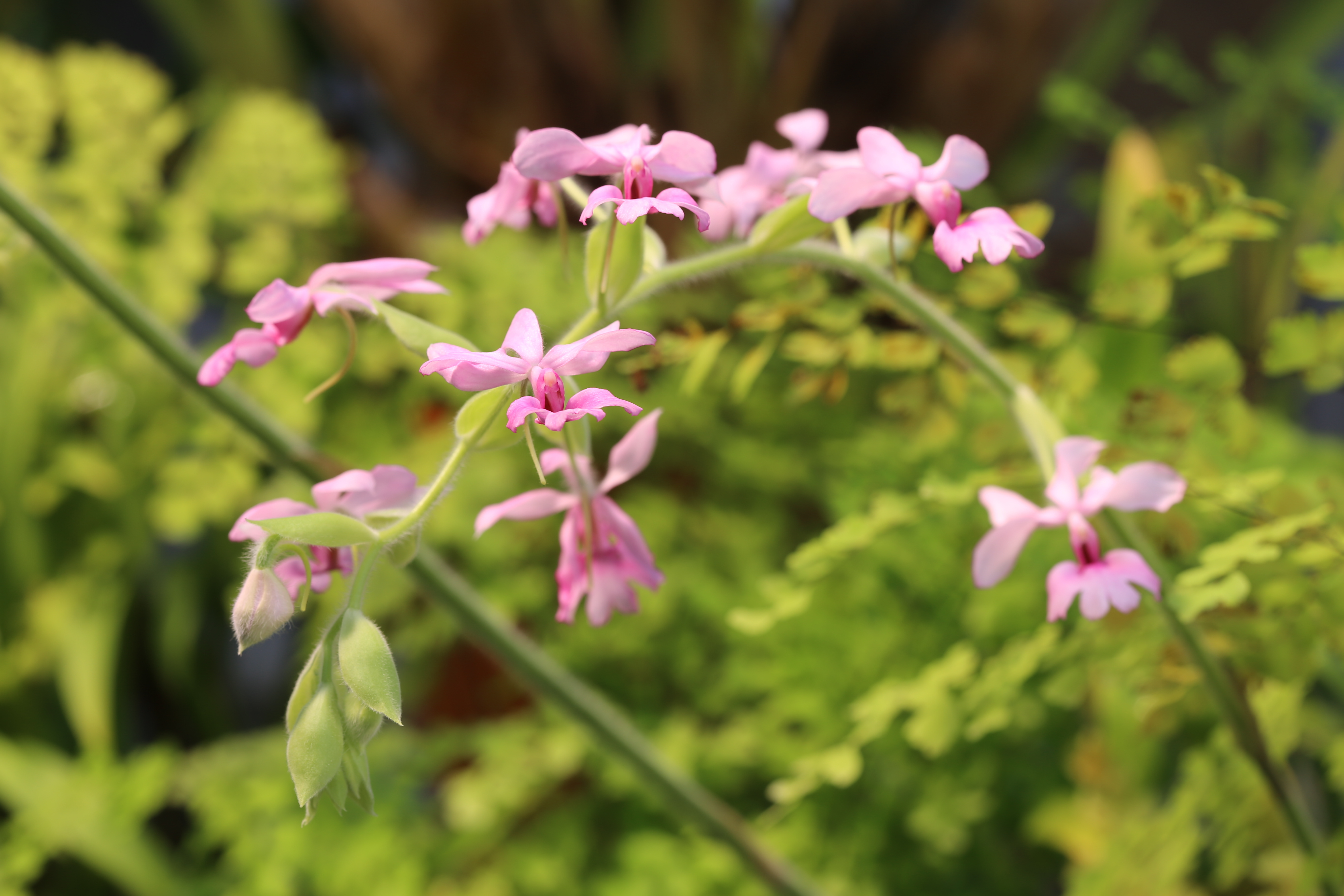 Calanthe rubens at Gothenburg Botanical Garden in 2015. Plant id: 2003-2310 p G -- Christ., H